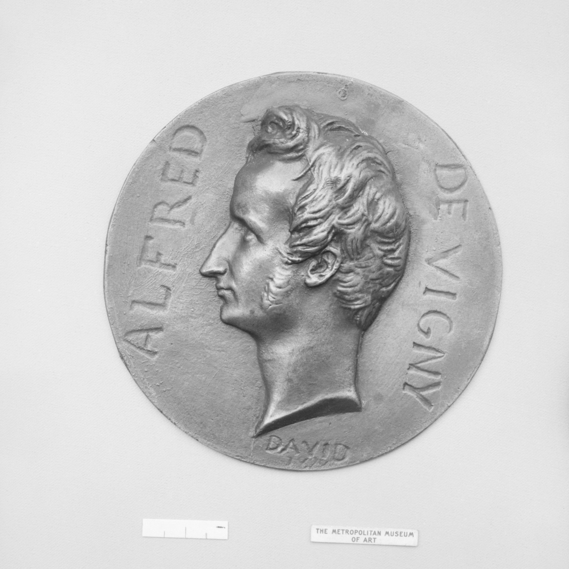 French; Medallion; Medals and Plaquettes